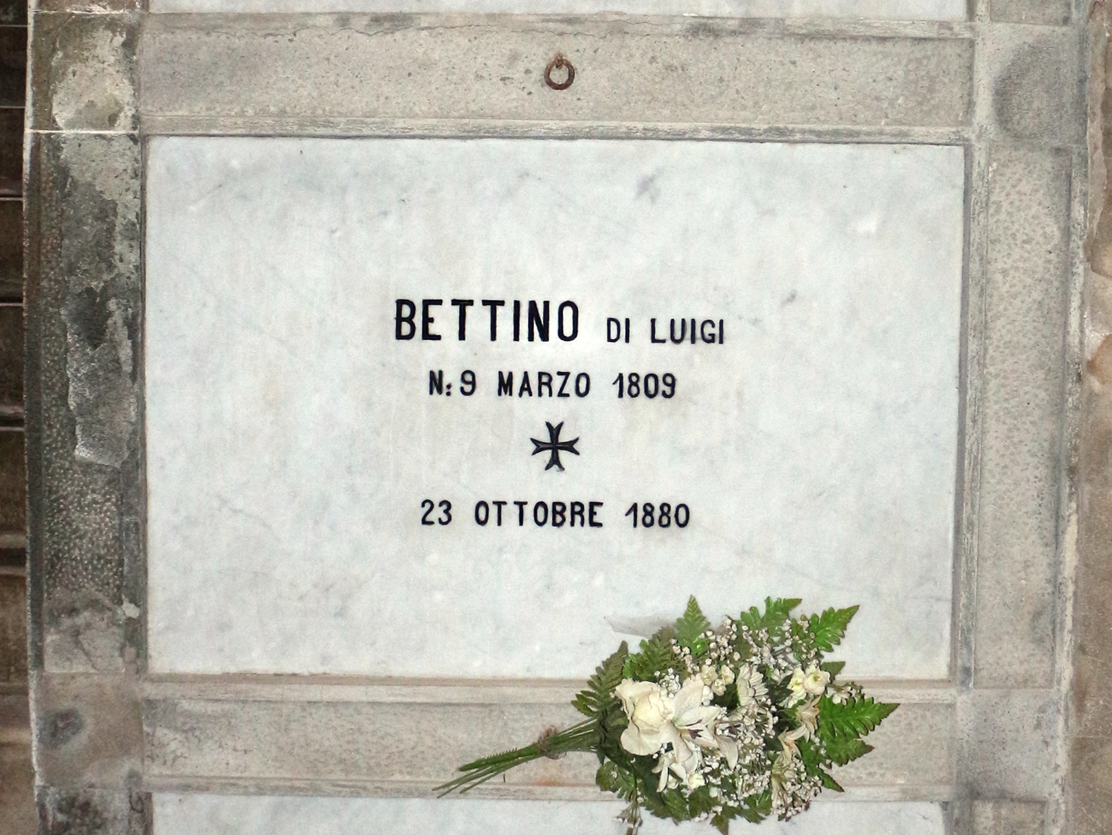 Castello di Brolio - Chapel of San Jacopo